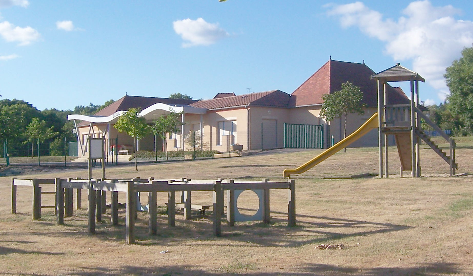 Primary school of Thégra in the Lot, France